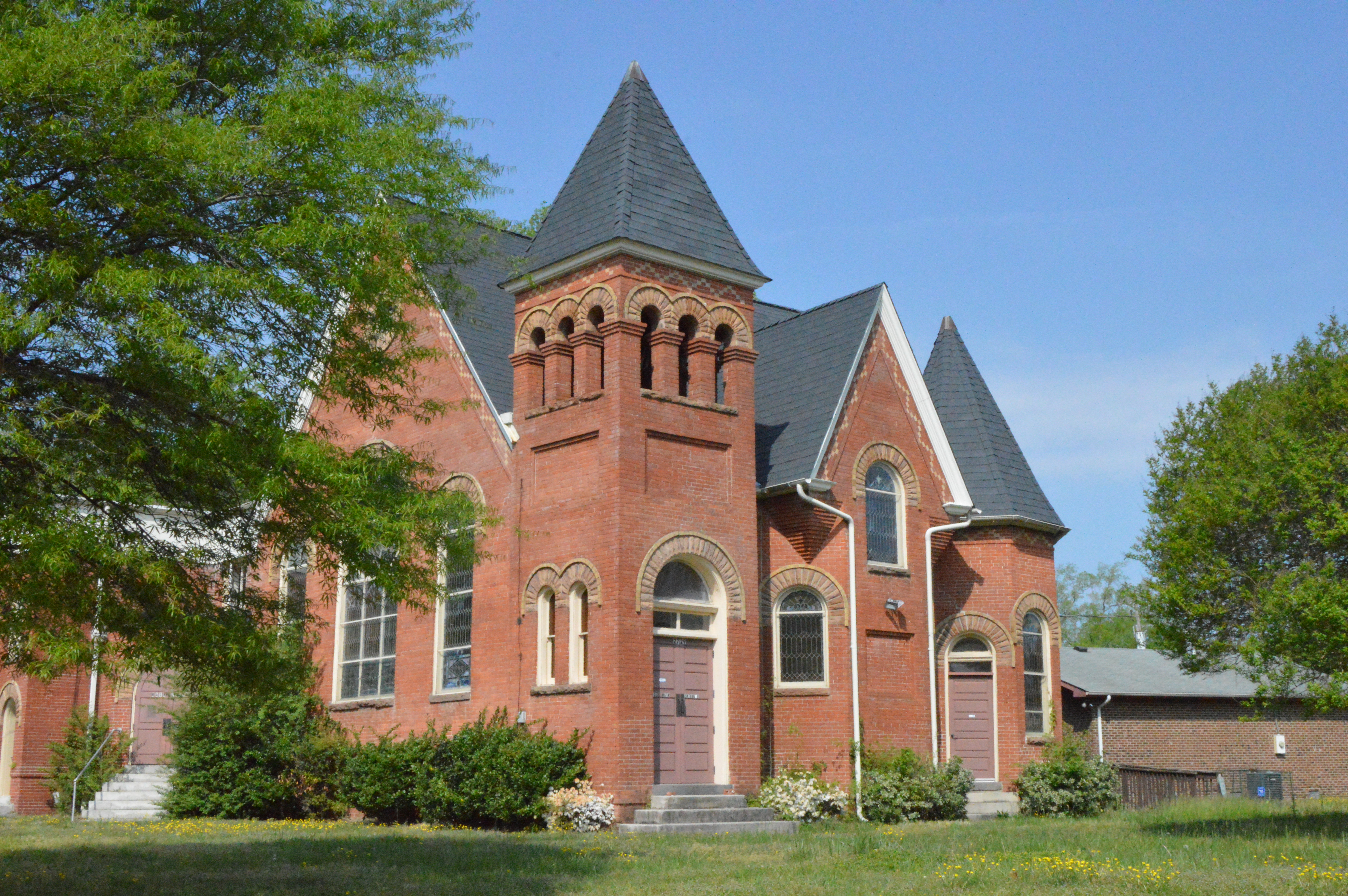 Front and southern side of the former Zion Methodist Church, located at 2729 Bowden's Ferry Road in Norfolk, Virginia, United States. Built in 1896, it is listed on the National Register of Historic Places.